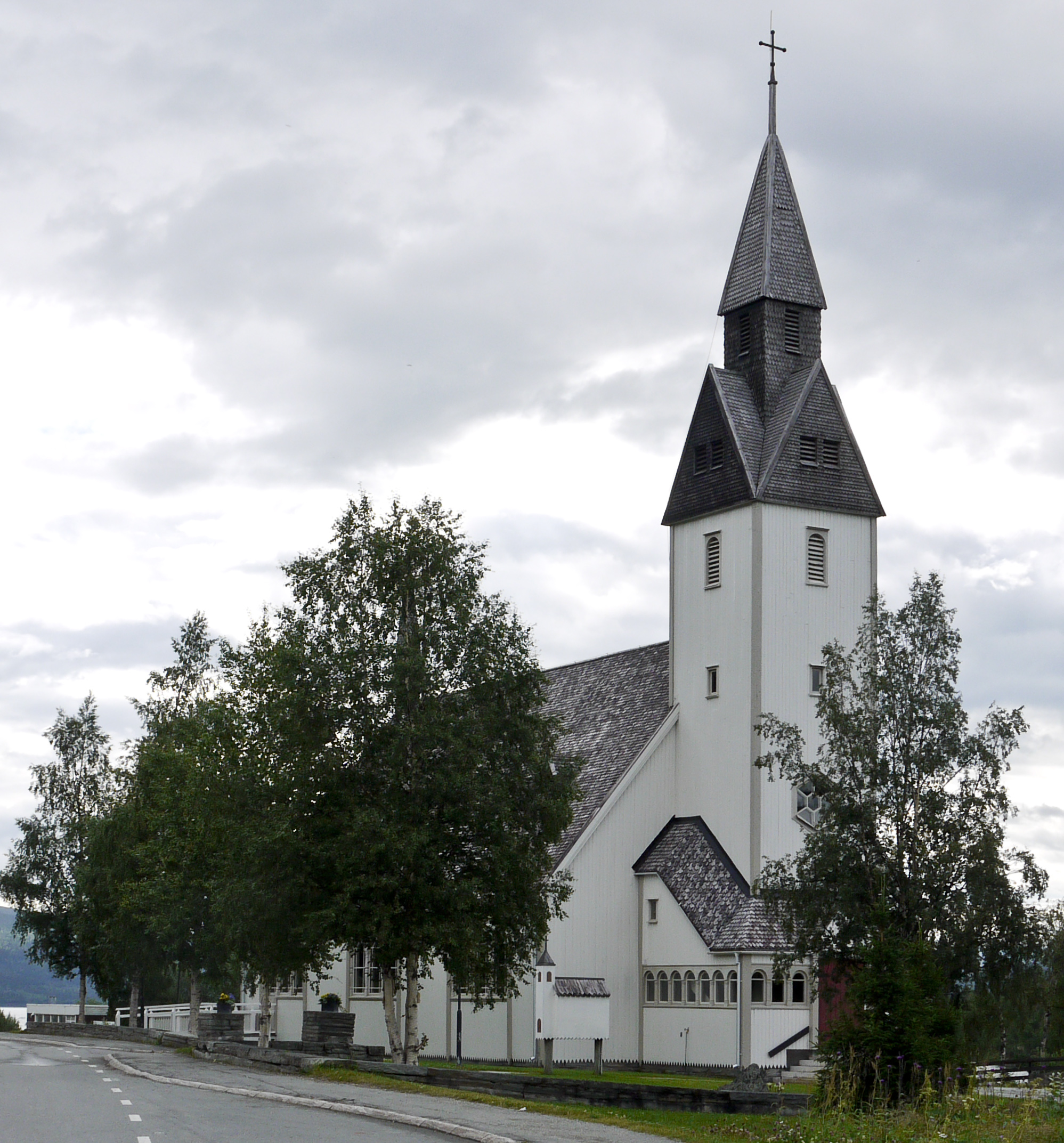 Tärna church, Tärnaby, Storuman. Diocese of Luleå, Västerbotten county.